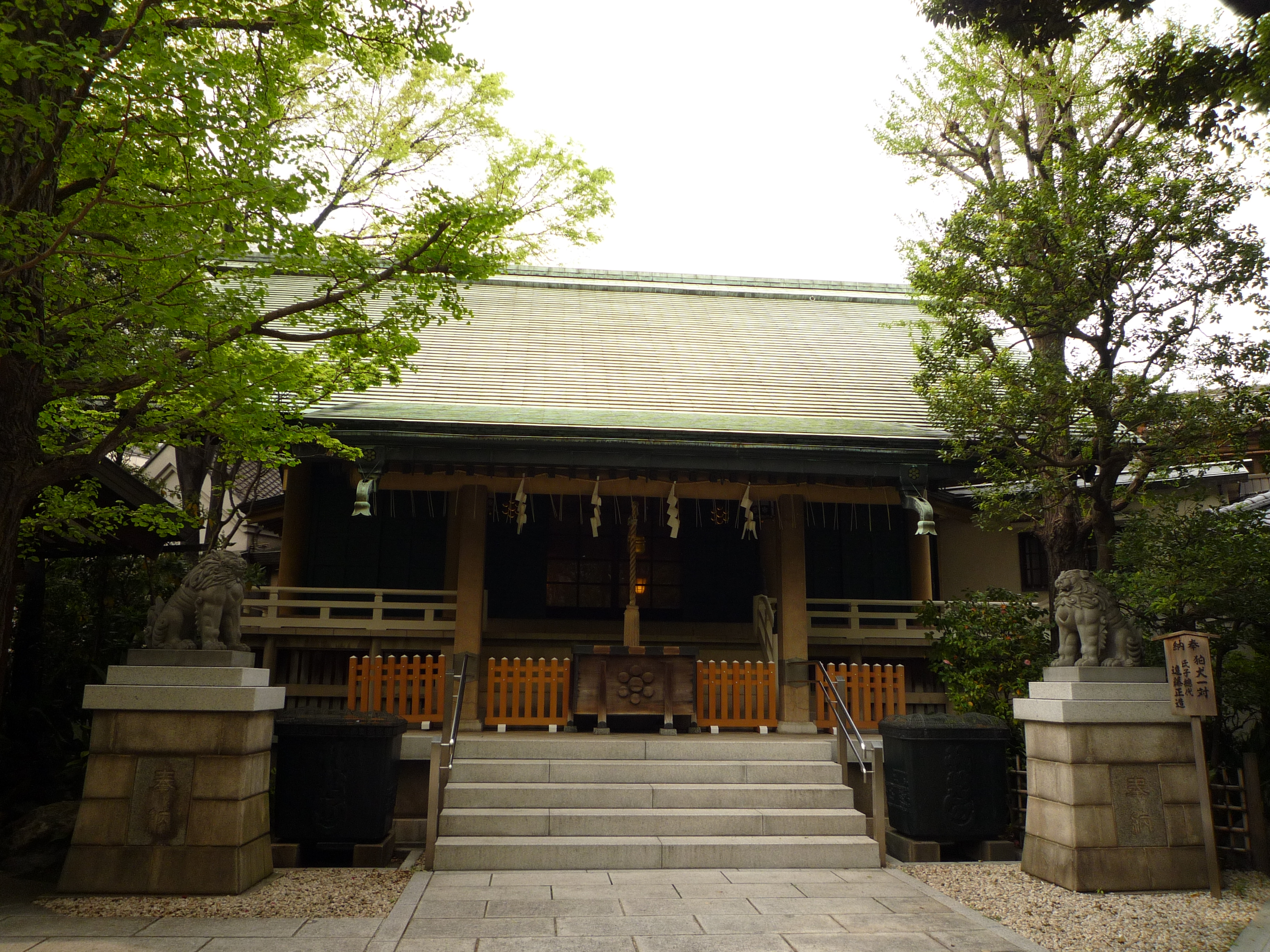 DairokutenSakiJinja